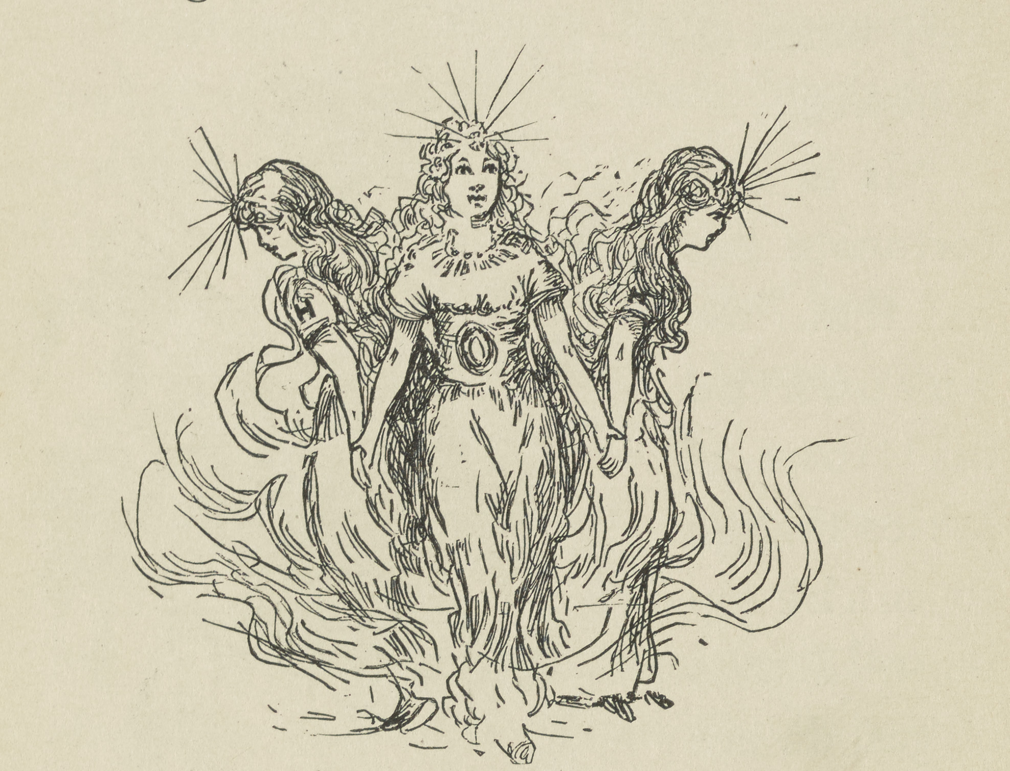 Illustration from Real fairy folks; explorations in the world of atoms, by Lucy Rider Meyer, 1849-1922. Boston: D. Lothrop and company, c1887, p. 208. Three fairies stand together, hands linked. The letters O and H appear on their clothing to indicate that they are hydrogen and oxygen, which combine to make water. The original subtitle read: FAIRY PICTURE OF WATER.